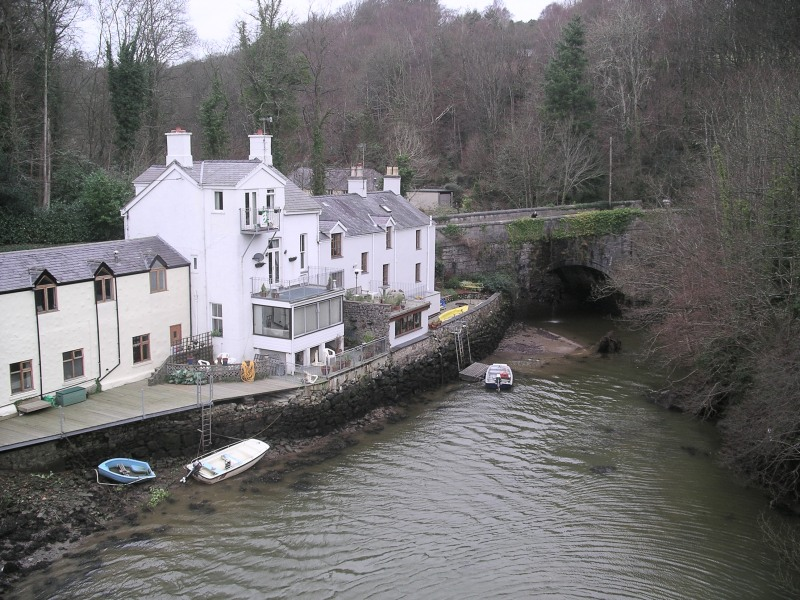 Cadnant Dingle - Menai Bridge, the traditional landing stage for the Bishop of Bangor prior to the construction of Thomas Telford's suspension bridge across the Menai Strait